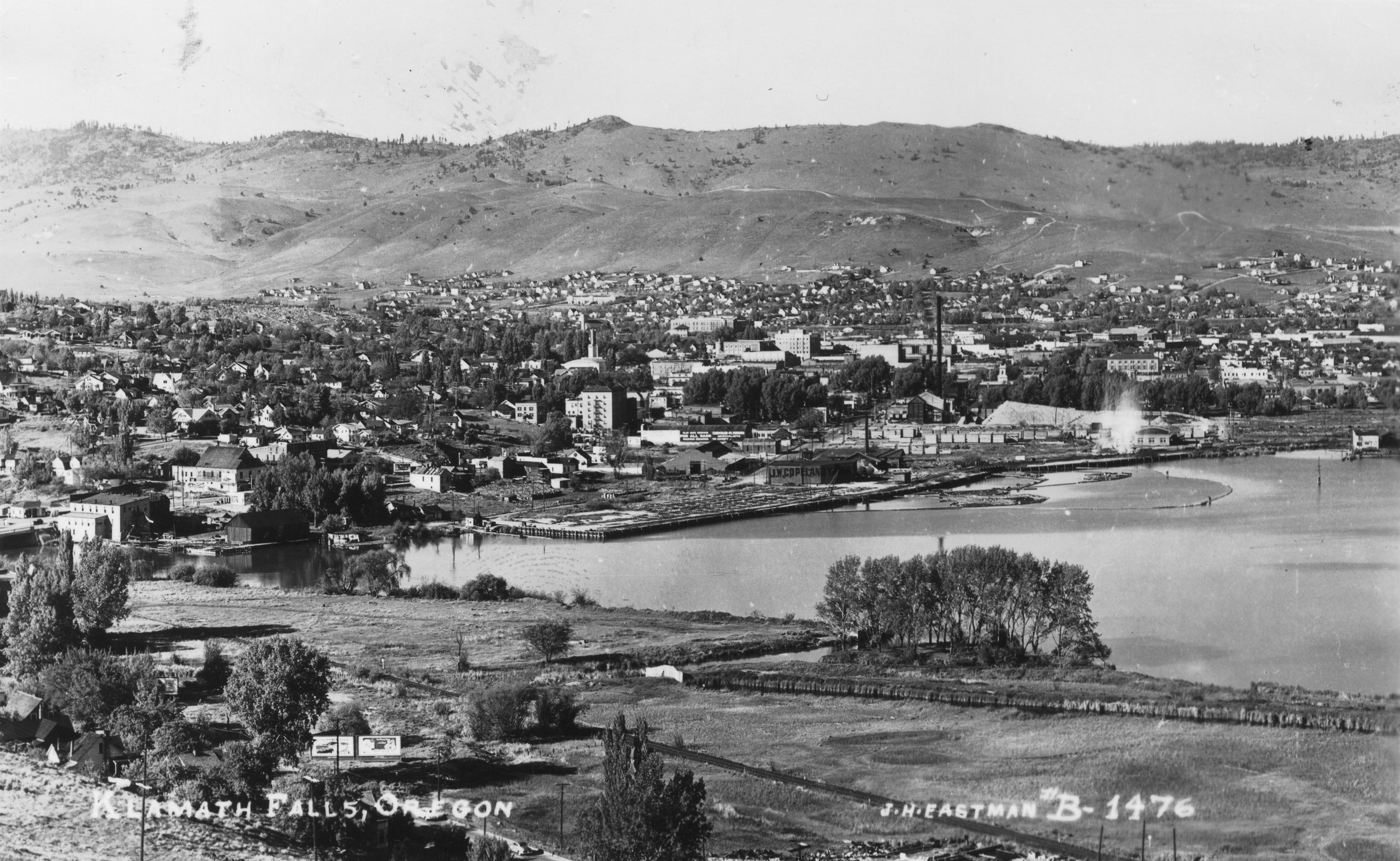 Original Collection: Gerald W. Williams Collection Item Number: WilliamsG_CO_Klamath Falls1 You can find this image by searching for the item number by clicking here. Want more? You can find more digital resources online. We're happy for you to share this digital image within the spirit of The Commons; however, certain restrictions on high quality reproductions of the original physical version may apply. To read more about what “no known restrictions” means, please visit the Special Collections & Archives website, or contact staff at the OSU Special Collections & Archives Research Center for details.